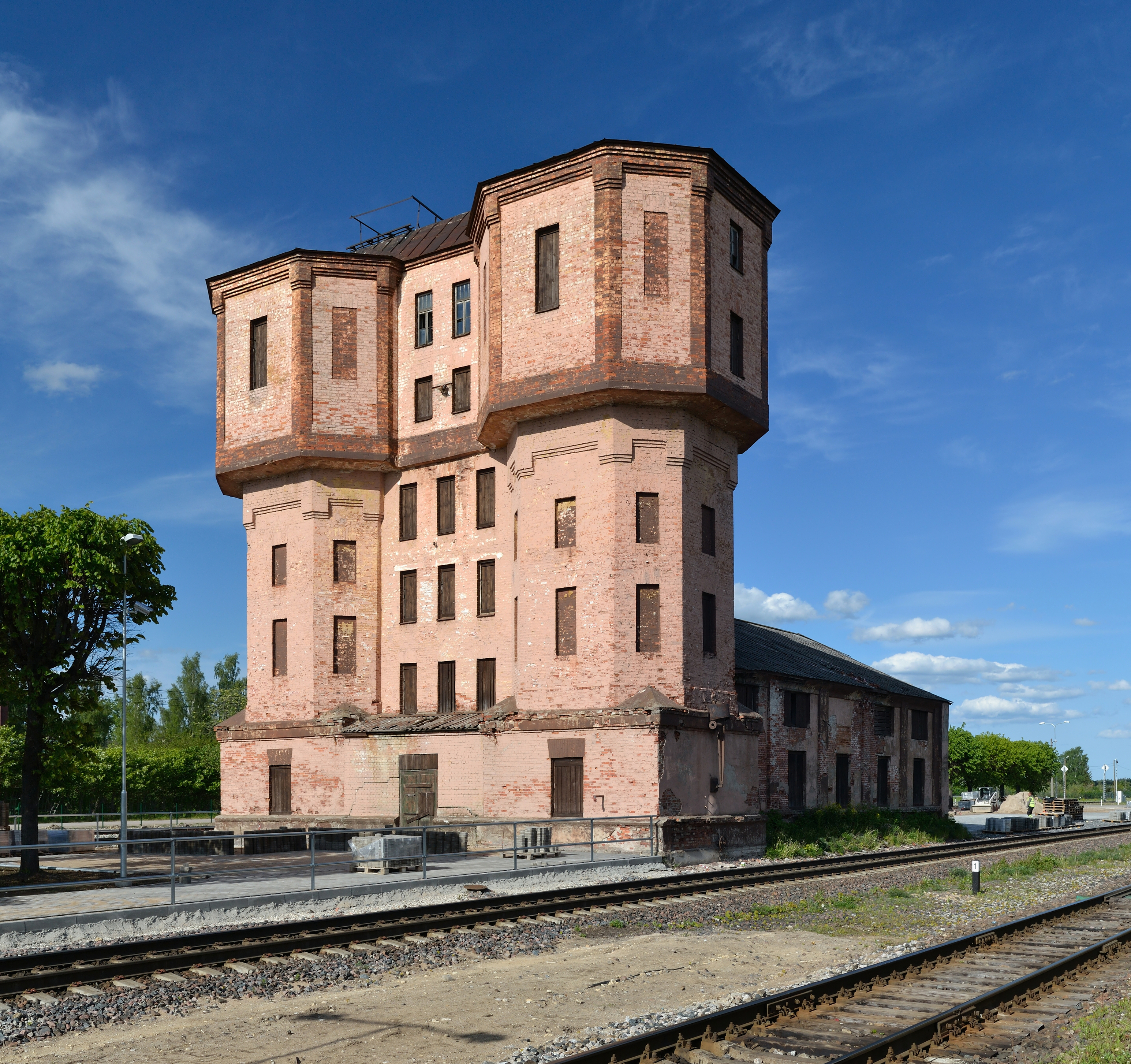 Tapa station water tower, built in the beginning of 20. century. This image was created with Hugin.